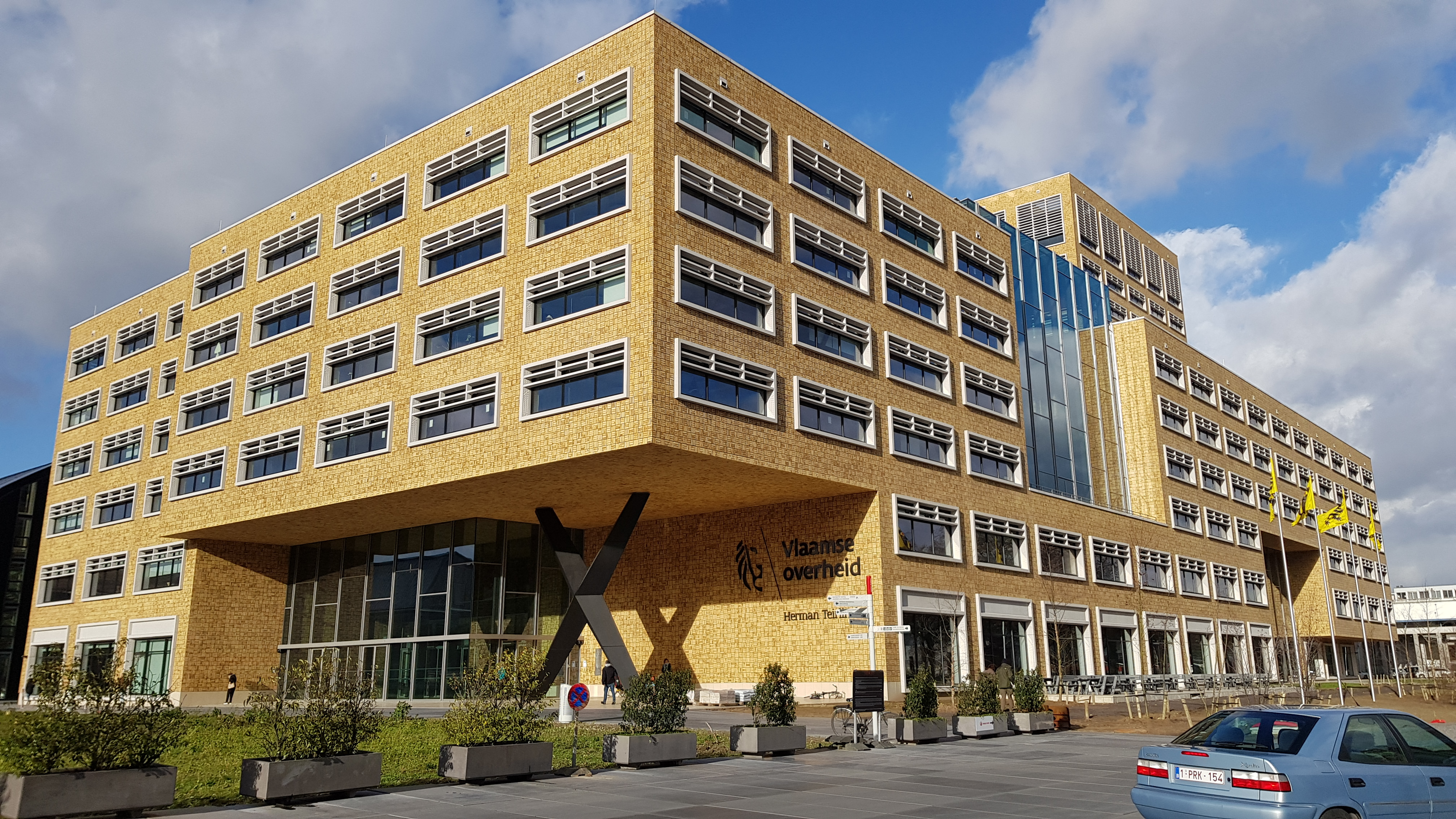 Herman Teirlinckgebouw, Brussels, Belgium